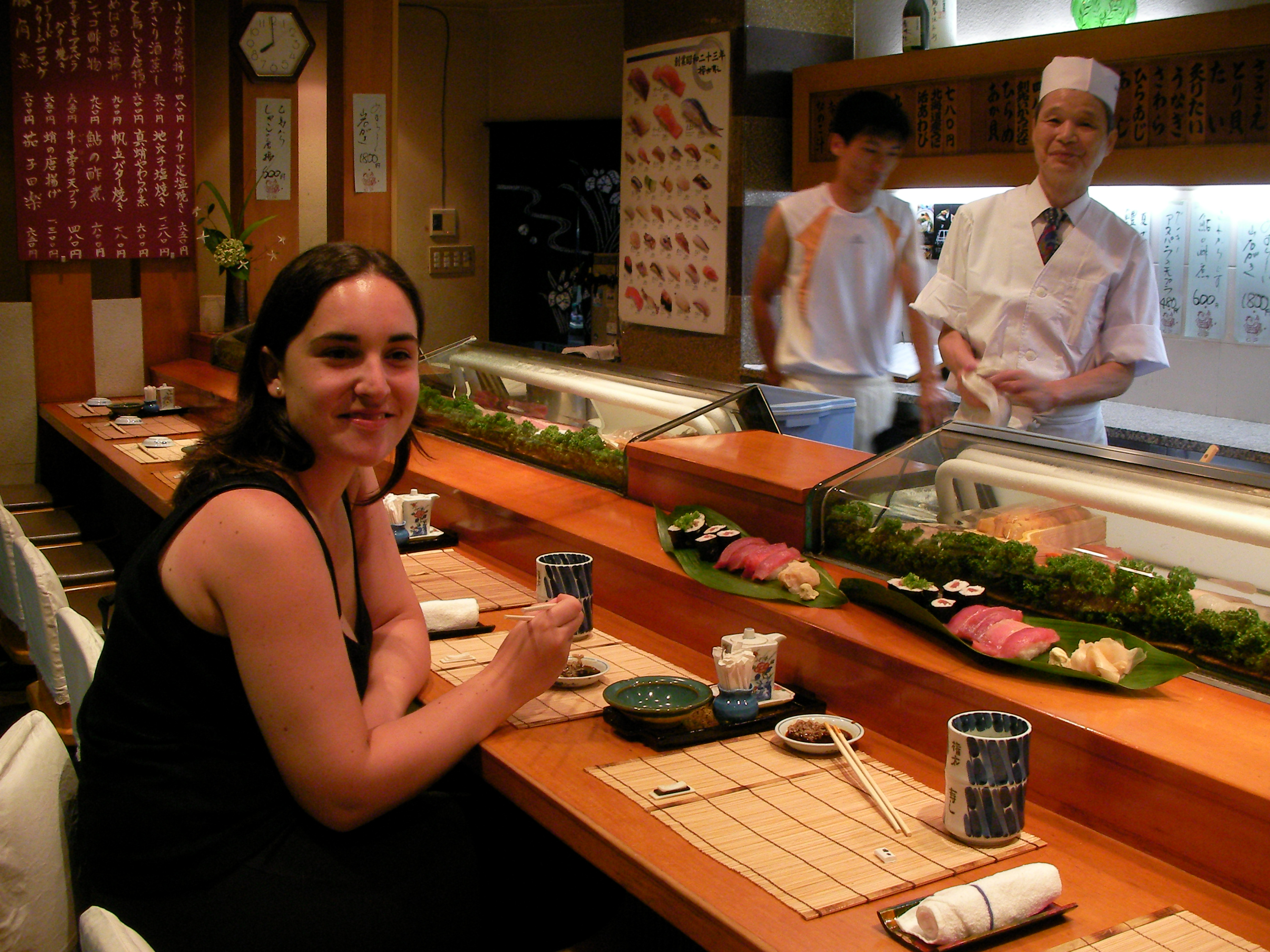 Sushi restaurant Gonta in Okayama, Japan.